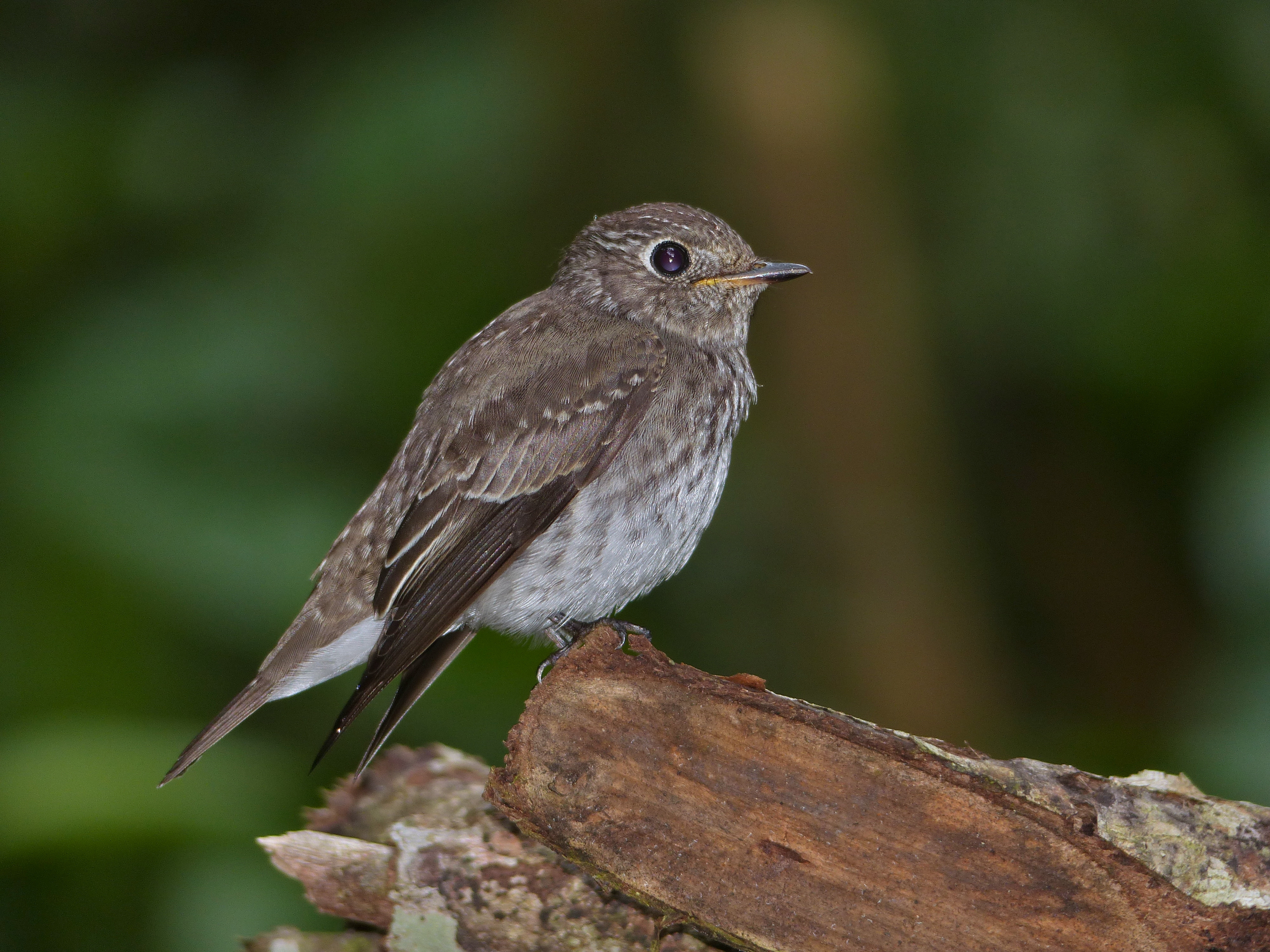 Asian Brown Flycatcher (Muscicapa dauurica) in Niah National Park, Sarawak, Malaysia.